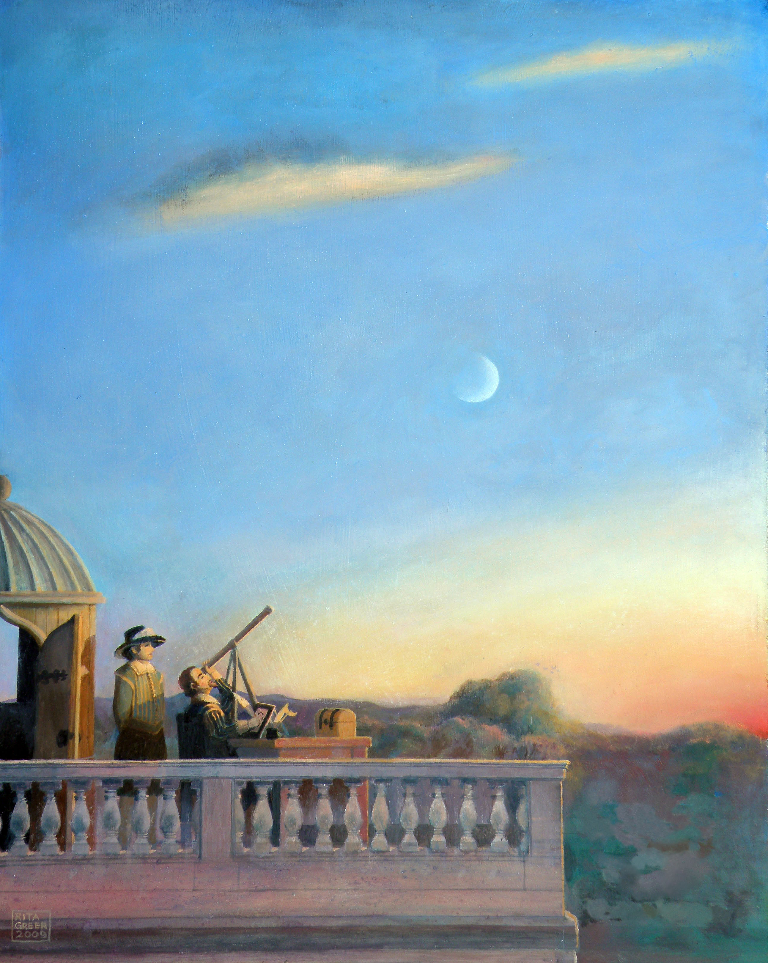 Thomas Harriot (1560-1621) and his friend Christopher Tooke set about drawing the moon from a rooftop in Syon Park, Middlesex, England, on 26th July 1609, in order to map the moon. For four centuries it was thought Galileo was the first to do this but documents found in the Public Records Office at Chichester, W. Sussex, England, show it was actually Thomas Harriot. There is no authenticated contemporary portrait of Thomas Harriot to date (2009) and it may well be none were ever painted of him. He did have a house in Syon Park (now pulled down), adjacent to Syon House. He is thought to have used his telescope from the rooftop of his house to make the maps. The picture made its debut at Telescope400 – Thomas Harriot Day, at Syon Park, Mddx on 26th July 2009. This was the 400th anniversary of Harriot's first drawing of the moon using a telescope.